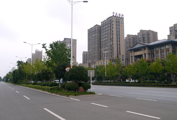 Jinzhou Avenue